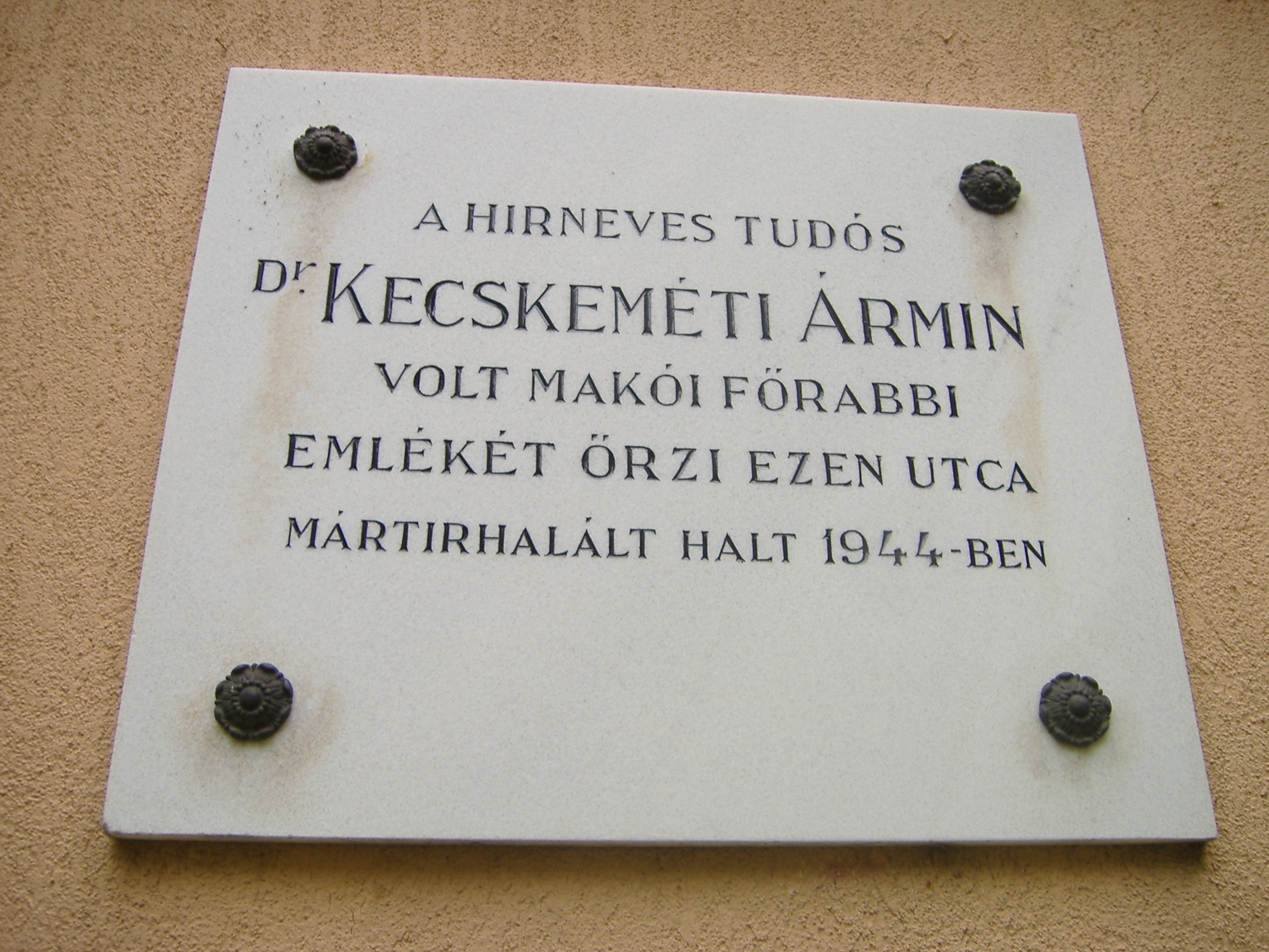 Memorial tablet commemorating to Ármin Kecskeméti, scientist and rabbi in Makó, Hungary.